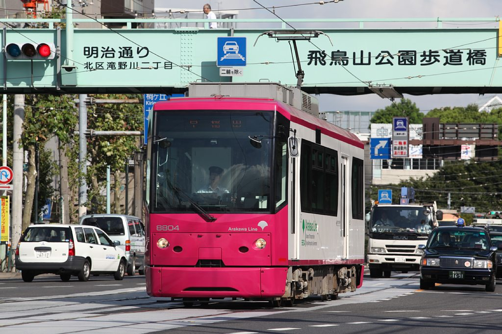 Toei 8800 series tramcar 8804 on the Toden Arakawa Line